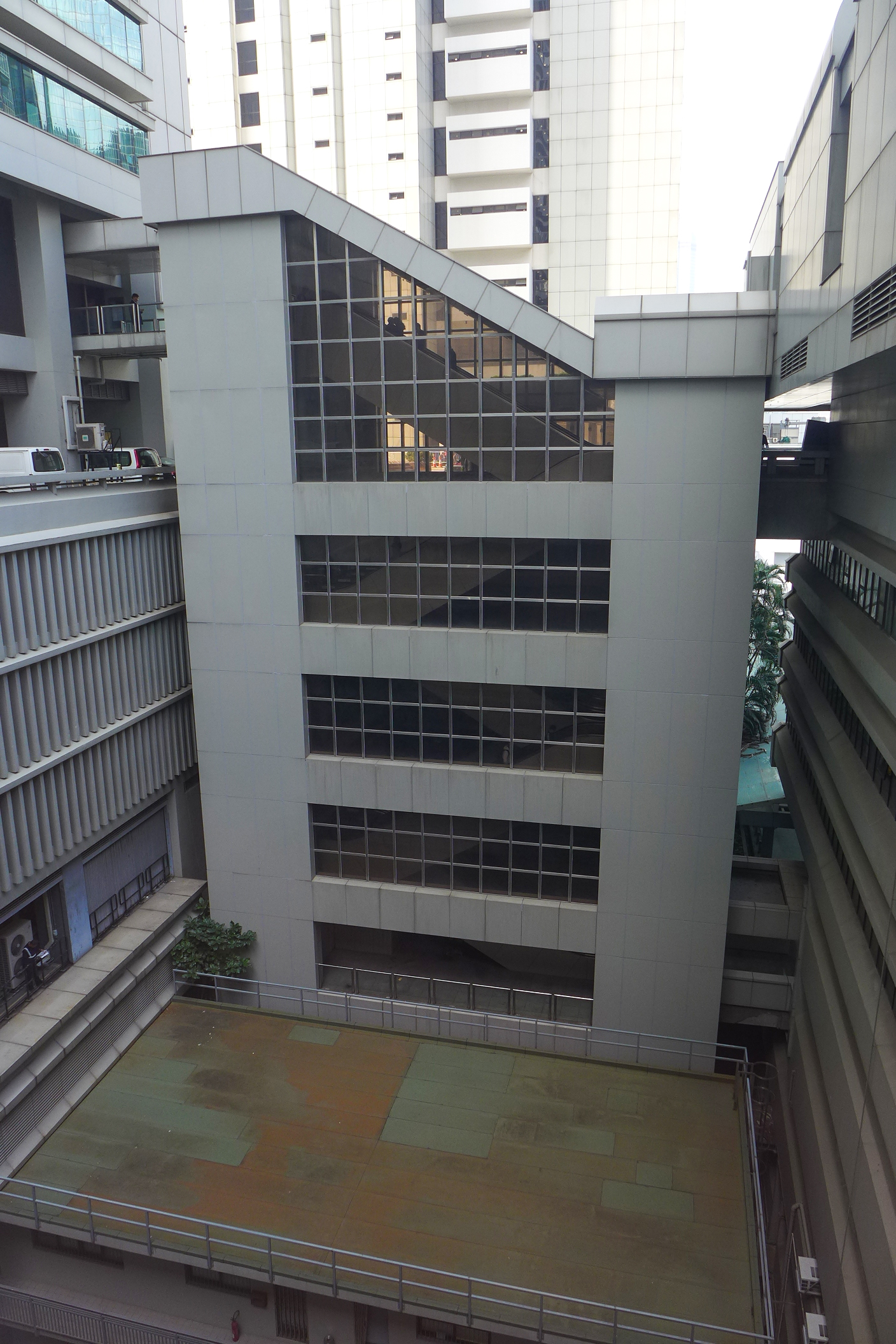 Queensway Government Offices